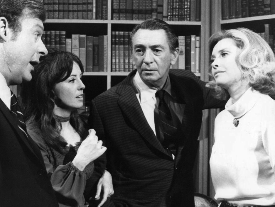 Cast photo from the daytime drama Days of Our Lives. Pictured from left:Edward Mallory, Denise Alexander, Macdonald Carey and Susan Flannery.